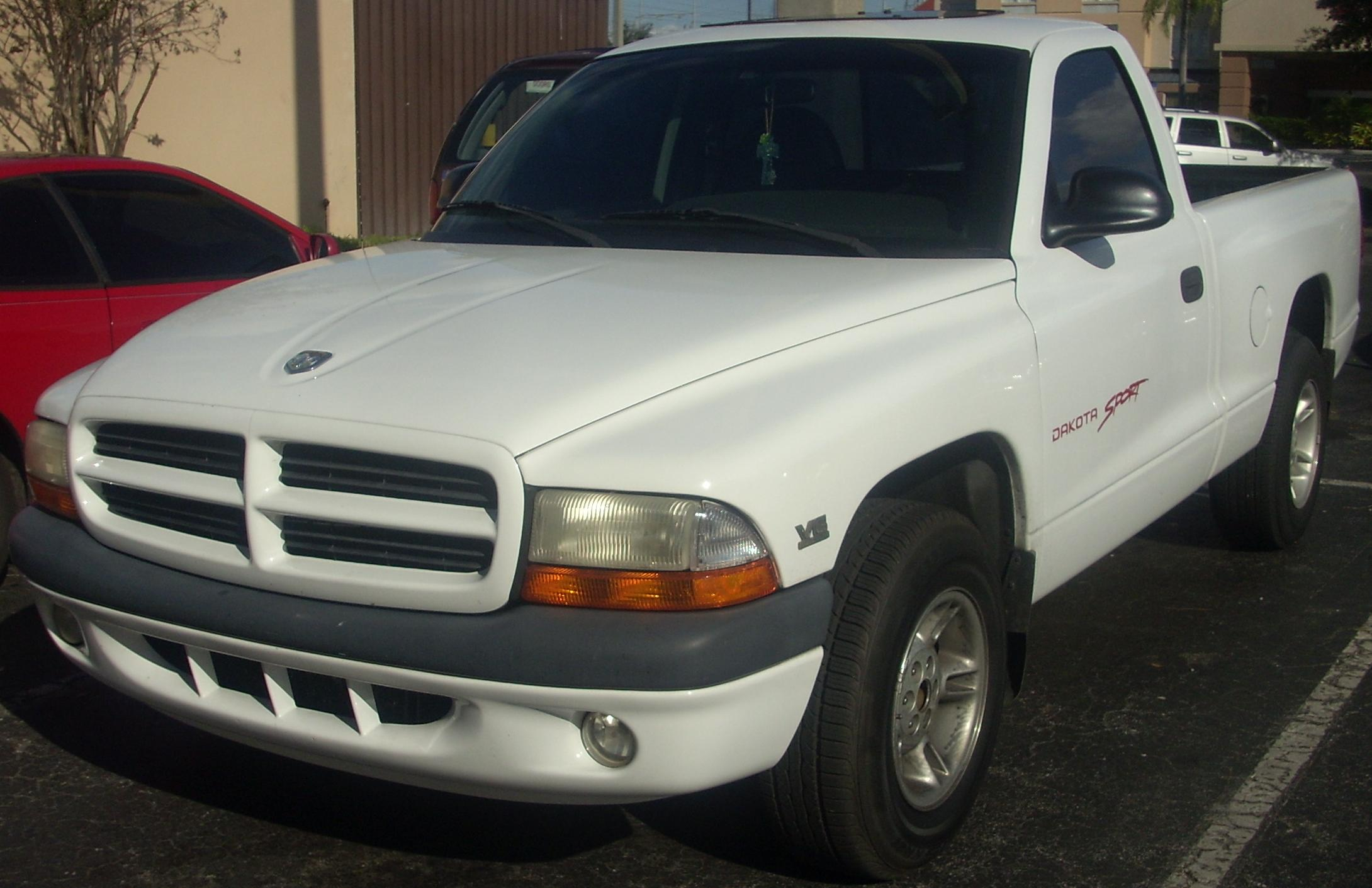 1997-1999 Dodge Dakota photographed in Orlando, Florida, USA.